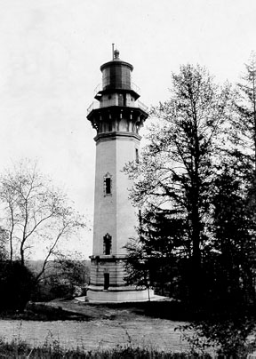 Staten Island Rear Range Lighthouse